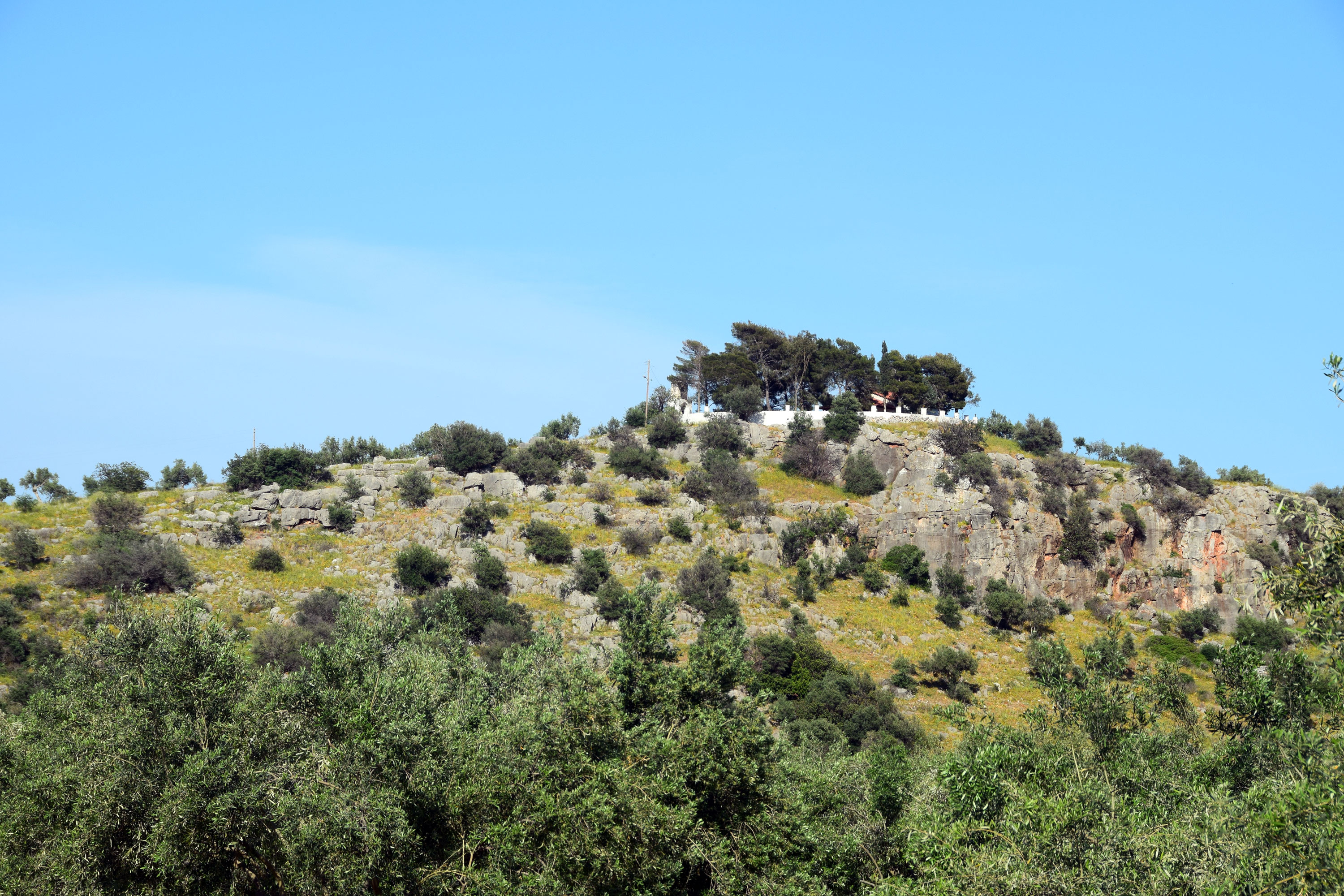 The hill of ancient Anthini near village Agios Andreas in Arcadia, Greece.